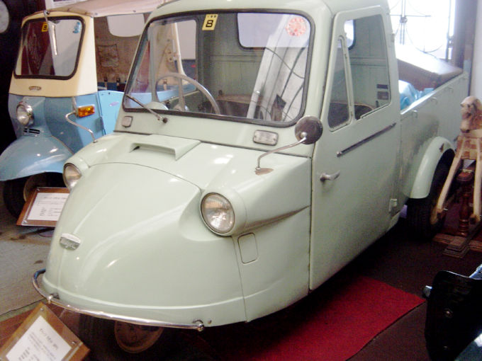 A Daihatsu Midget MP4 model along with a DA5 model in the background